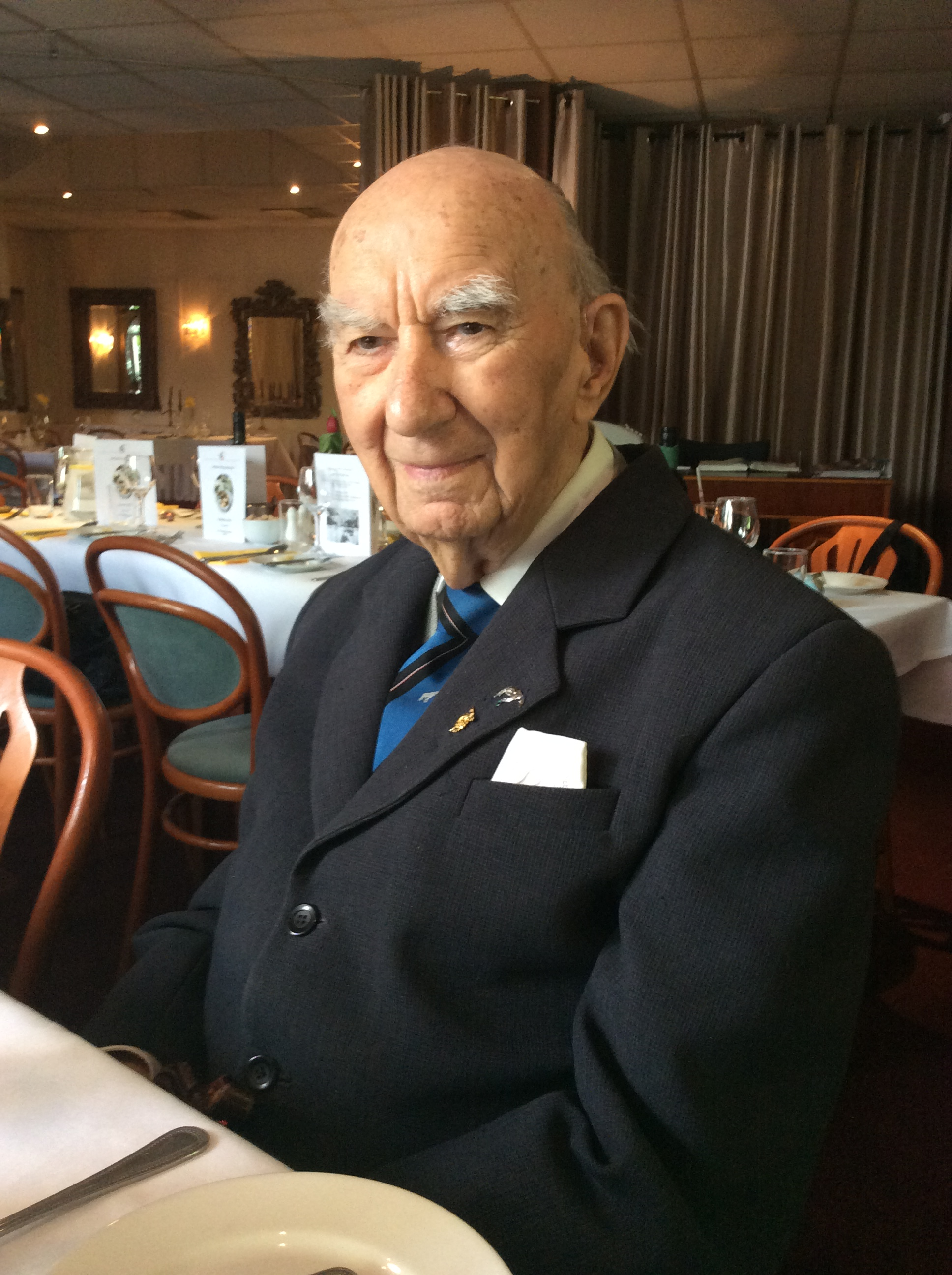 This is a photograph that I took of Colonel Adam Ostrowski, at the Polish Airmen's Association's Easter Lunch, on the 22nd April 2017. He was then aged 98.